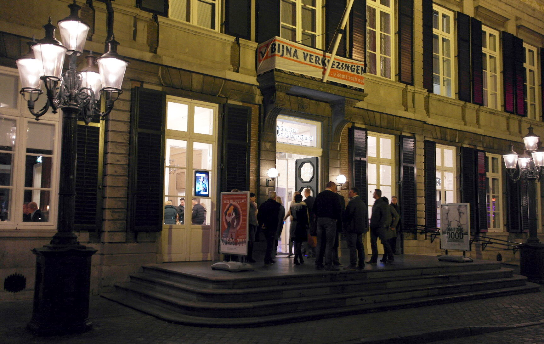 Maastricht, the Netherlands. View of the entrance of Theater aan het Vrijthof, Maastricht's main theater on Vrijthof square.